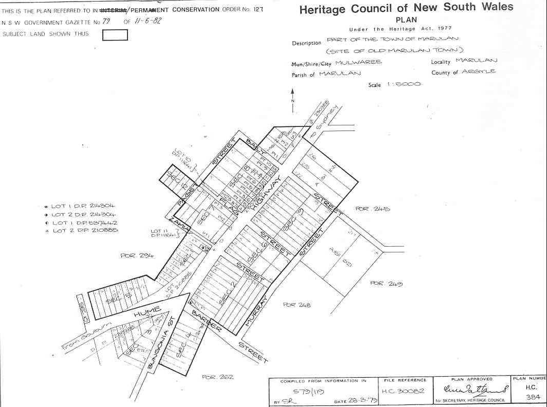 Old Marulan Town: PCO Plan Number 127